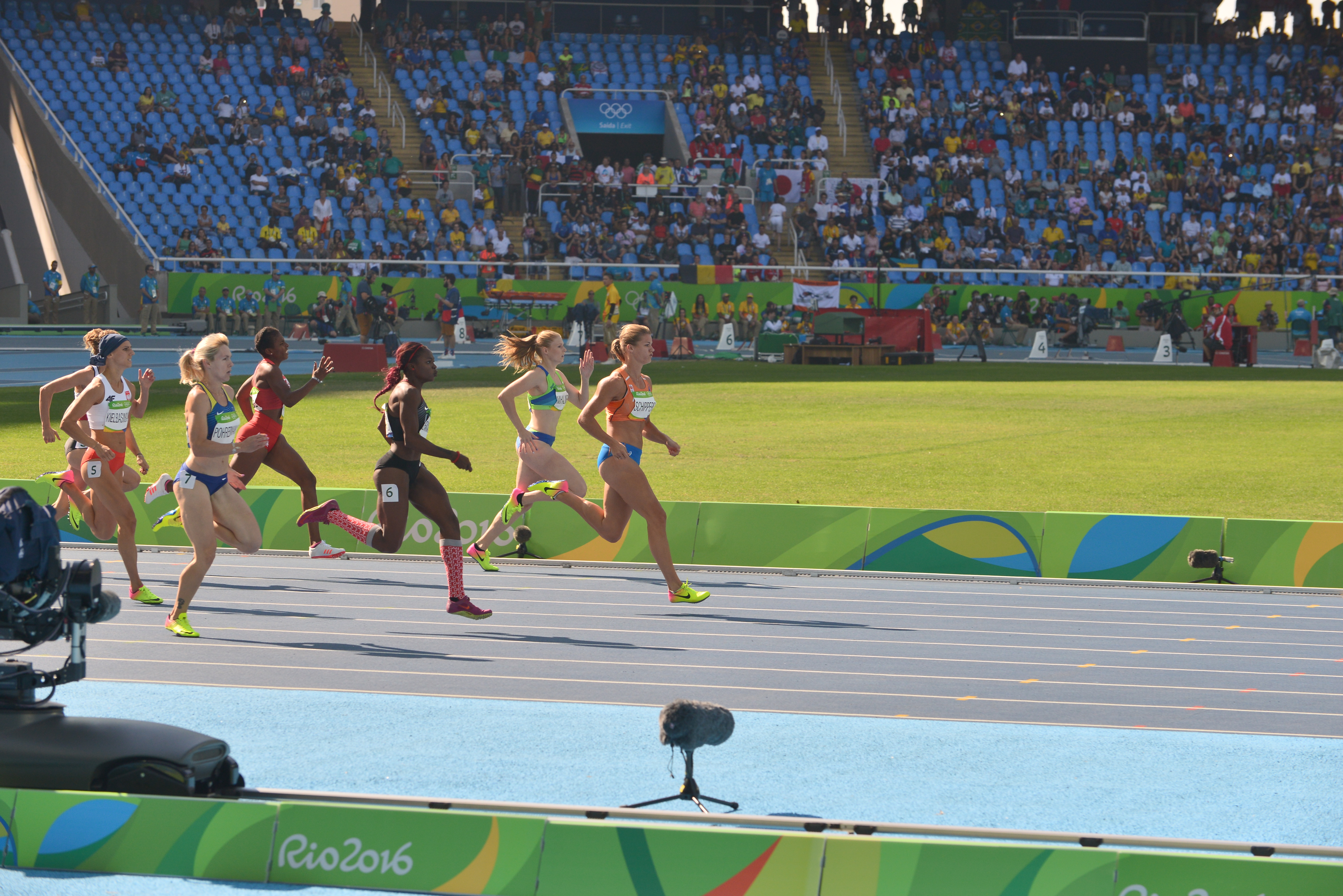 Women's 200m Round1 - Heat 1 of olympic games in Rio 2016